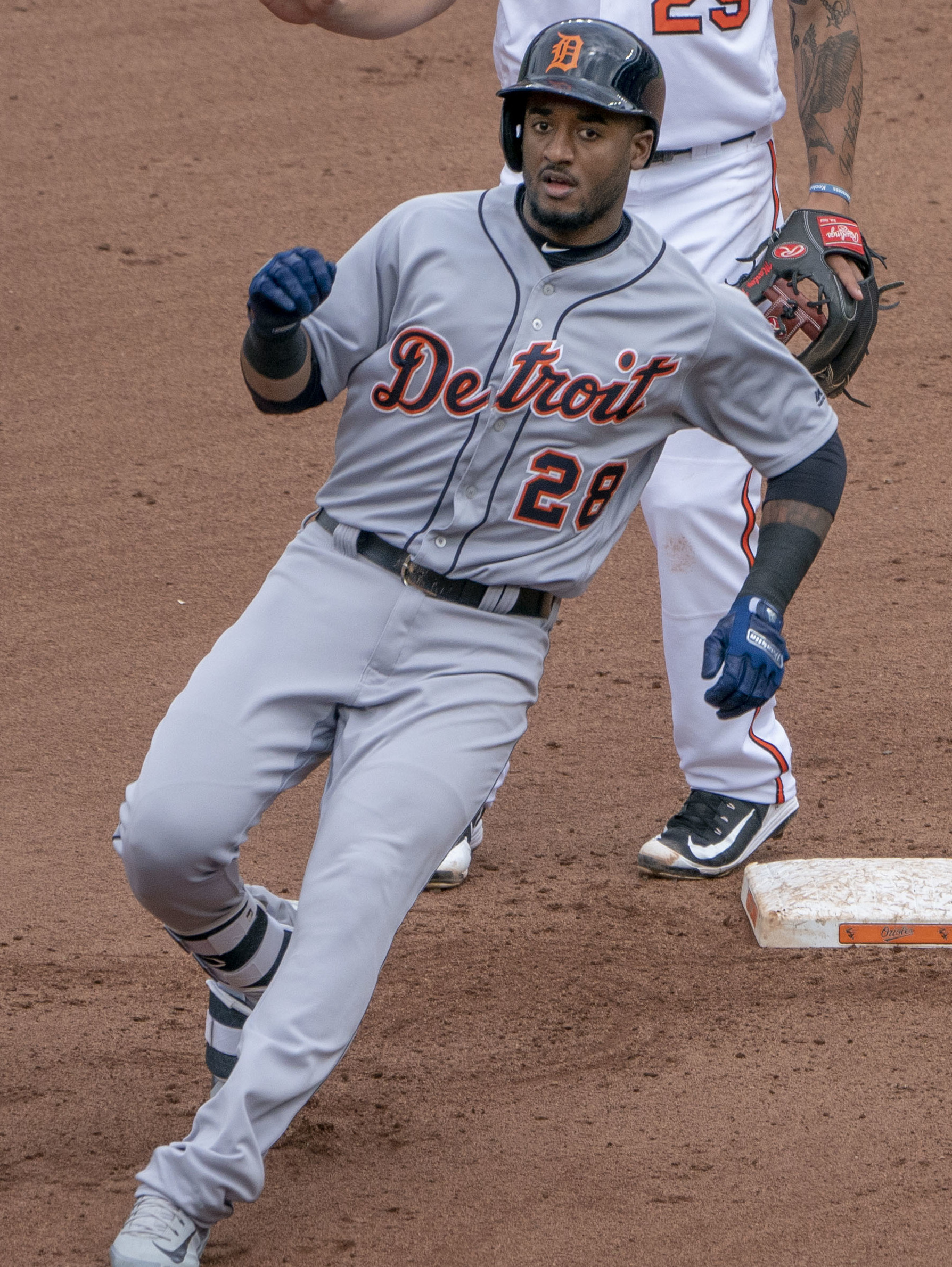 Niko Goodrum of the Detroit Tigers rounds second base during a game against the Baltimore Orioles at Camden Yards in Baltimore in 2018